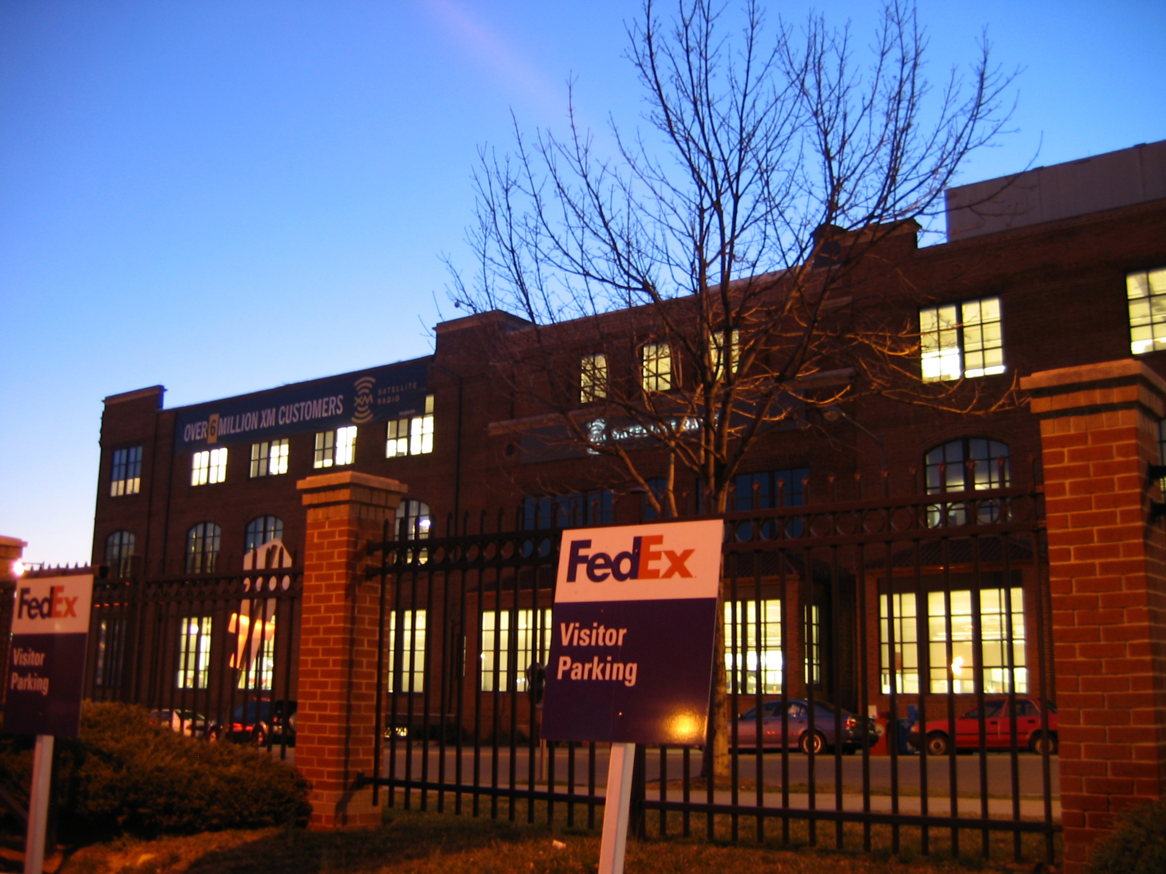 XM Satellite Radio headquarters, across the street from Washington, D.C.'s main FedEx distribution facility, and located near the New York Avenue metro station.